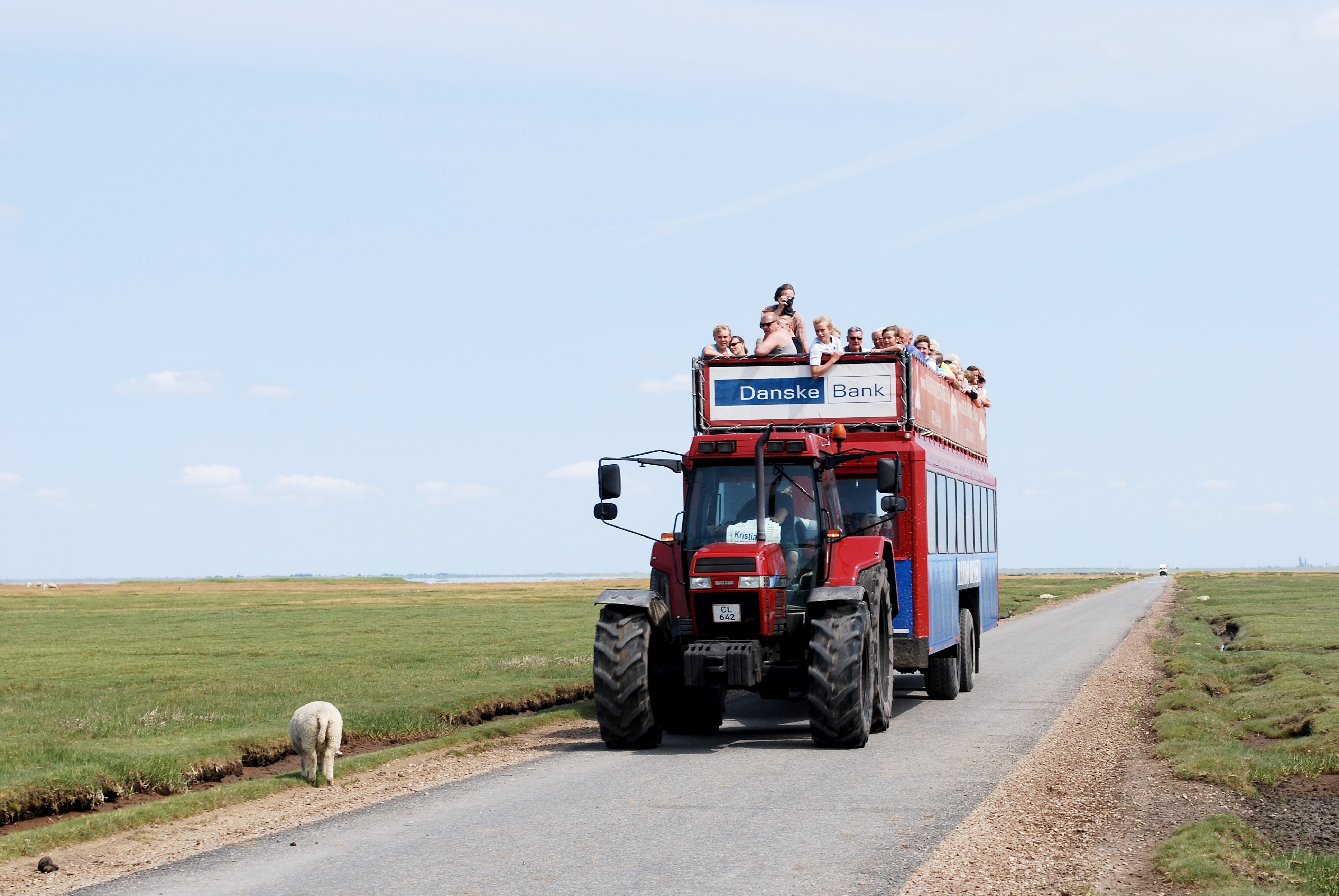 Tractorbus Vester Vedsted - Mandø